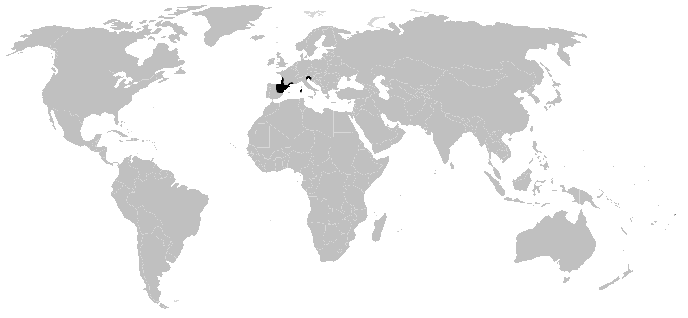 Approximate minimal distribution of Icius subinermis.